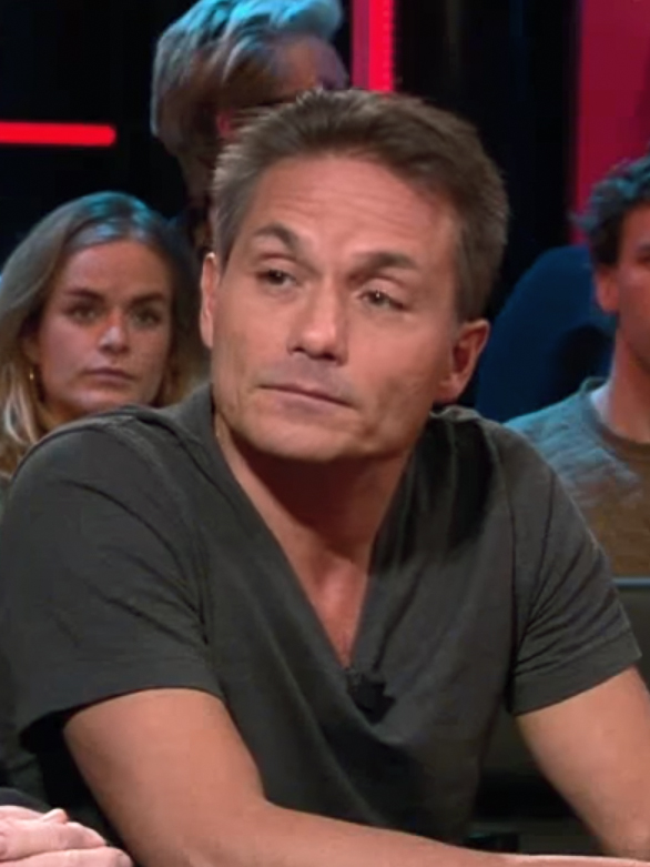 Peter van Dongen (2017)